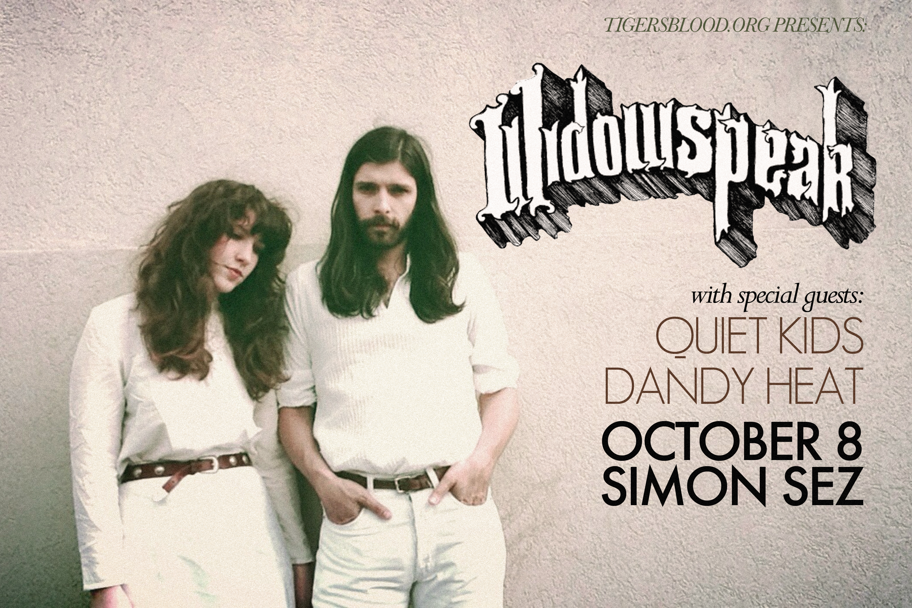 Flyer from the Widospeak show in McAllen Tx ft. Quiet Kids & Dandy Heat